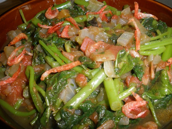 Ravimbomanga sy patsamena is a dish eaten in Madagascar. It consists of potato leaves stewed with dried shrimp and beef in a light tomato sauce and is served over rice. Lemurbaby (talk) 04:34, 5 November 2010 (UTC)